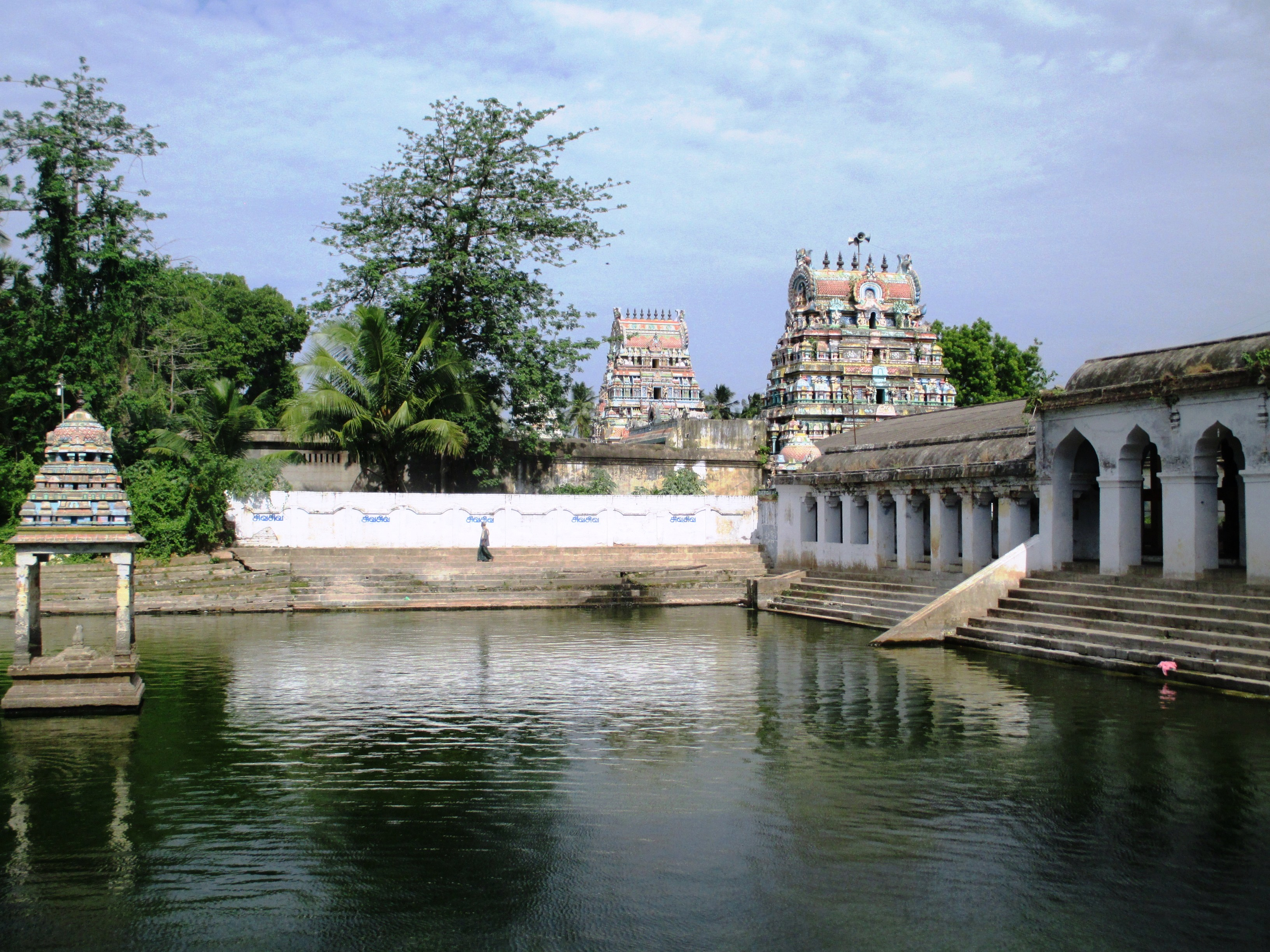 Mayuranathaswami temple